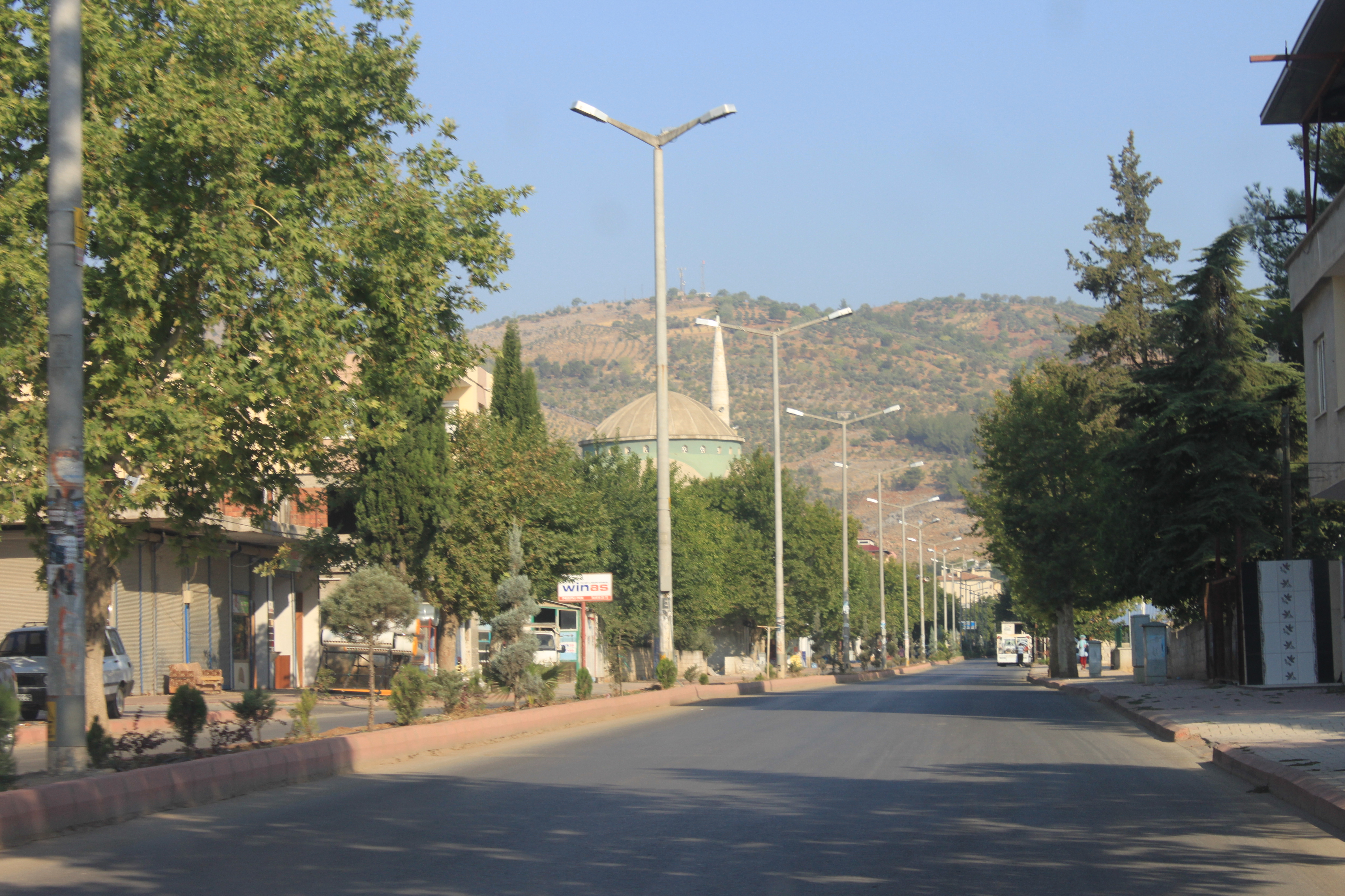 Türkoğlu, Kahramanmaraş Province; Atatürk Caddesi with Yeni Cami (Atatürk st. with New Mosque)